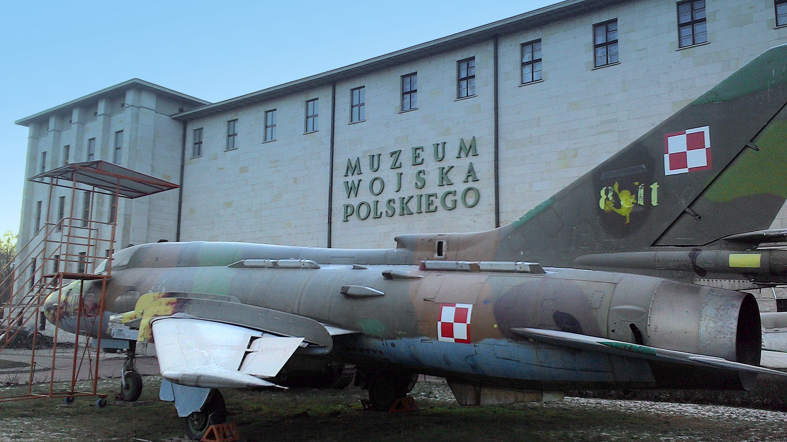 Polish Army Museum, Warsaw